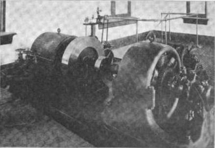 In-conduit hydro turbine of Pelton wheel type coupled with 20 kW single-phase generator for lighting loads at St. Louis Municipal Electric Power Plant in 1902.